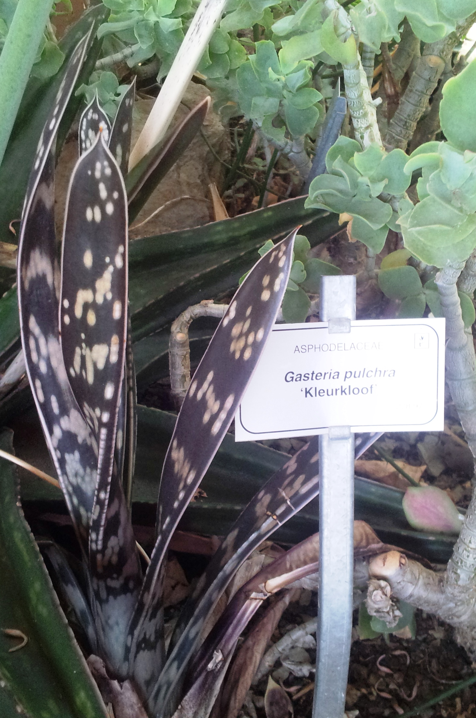 Gasteria pulchra - Kirstenbosch NBG